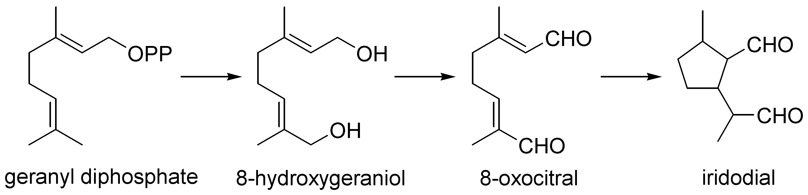 Selfmade with ChemDraw